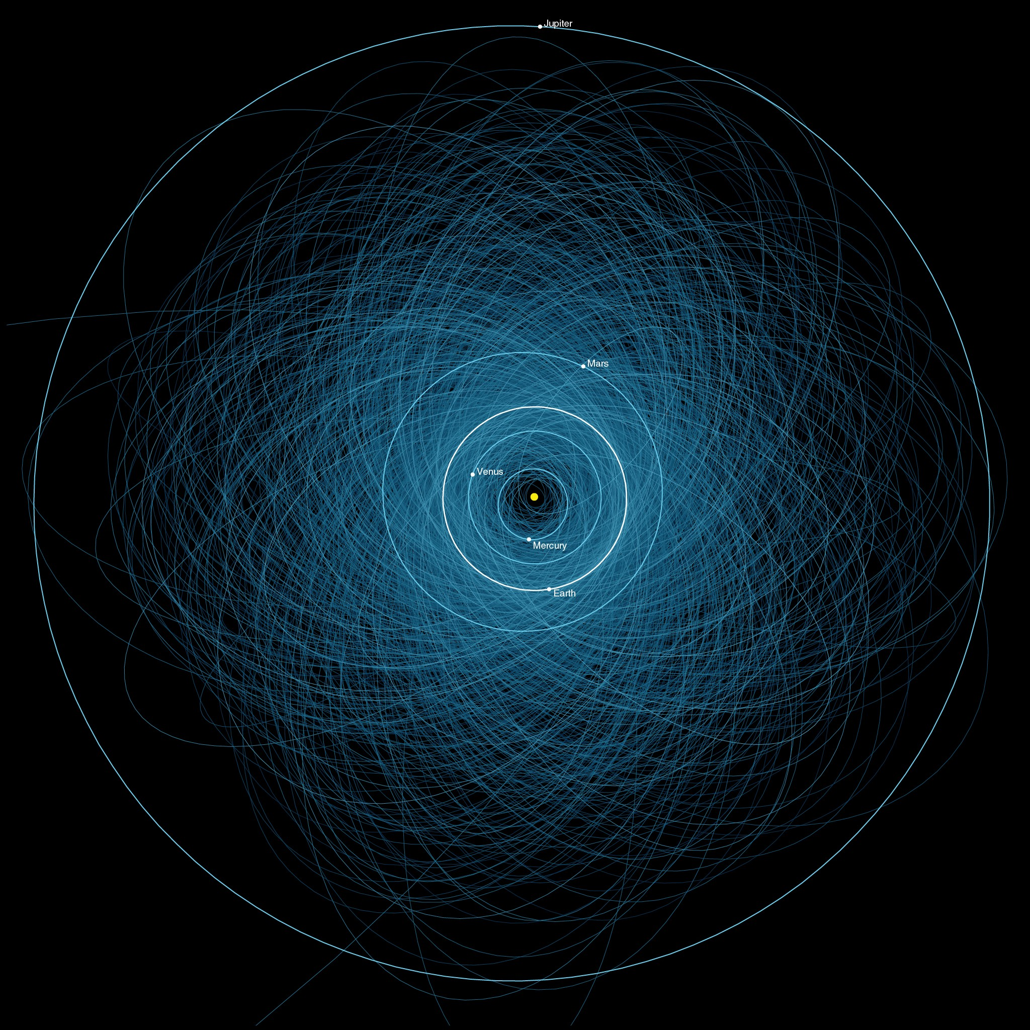 PIA17041: Orbits of Potentially Hazardous Asteroids (PHAs) This graphic shows the orbits of all the known Potentially Hazardous Asteroids (PHAs), numbering over 1,400 as of early 2013. These are the asteroids considered hazardous because they are fairly large (at least 460 feet or 140 meters in size), and because they follow orbits that pass close to the Earth’s orbit (within 4.7 million miles or 7.5 million kilometers). But being classified as a PHA does not mean that an asteroid will impact the Earth: None of these PHAs is a worrisome threat over the next hundred years. By continuing to observe and track these asteroids, their orbits can be refined and more precise predictions made of their future close approaches and impact probabilities. More information about asteroids and near-Earth objects is at